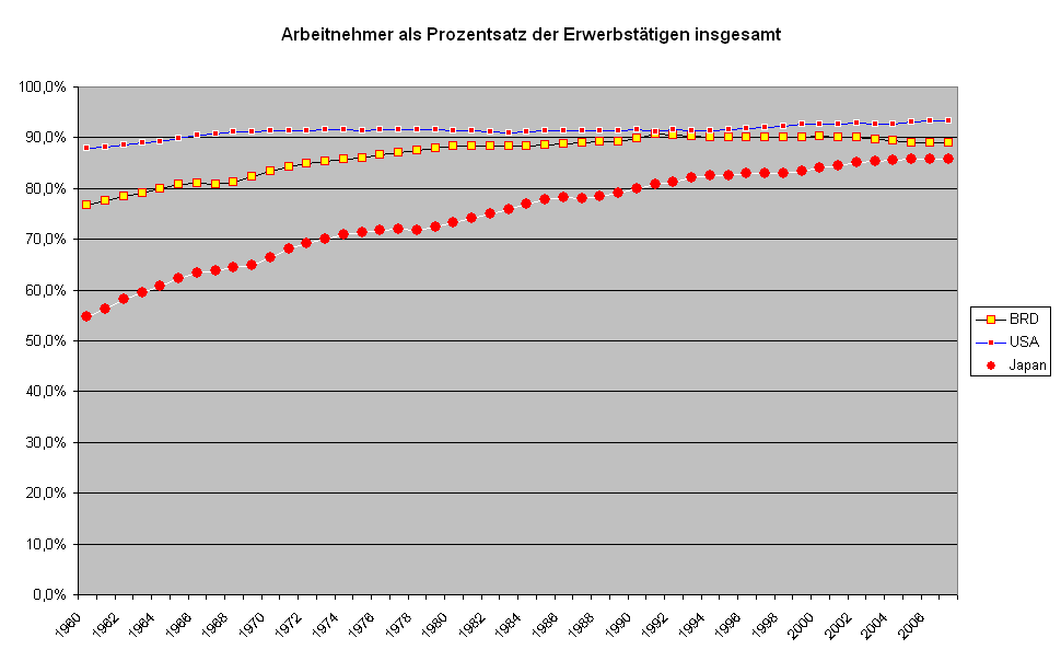 employees in percentage of total employment